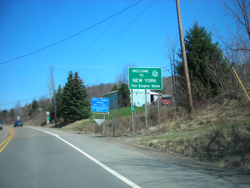 Entering New York on Pennsylvania Route 14 northbound. The final "little white sign" for PA 14, the first reference marker for New York State Route 14, and the first reassurance marker for NY 14 are all visible in this picture.